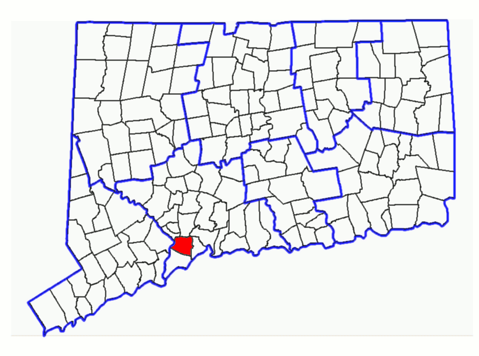 Subject: Map of Connecticut Townships with Orange highlighted. County lines also shown. Derived from sub-county SVG map of Connecticut at Libre Map Project using Adobe SVG viewer and Gimp 2.2.1.3